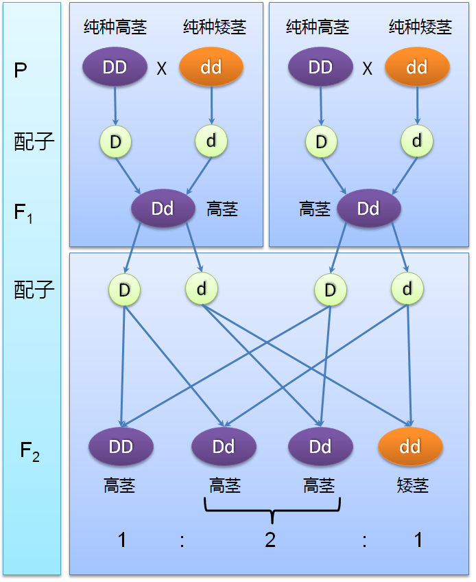 Mondel's experiment on cross of pea